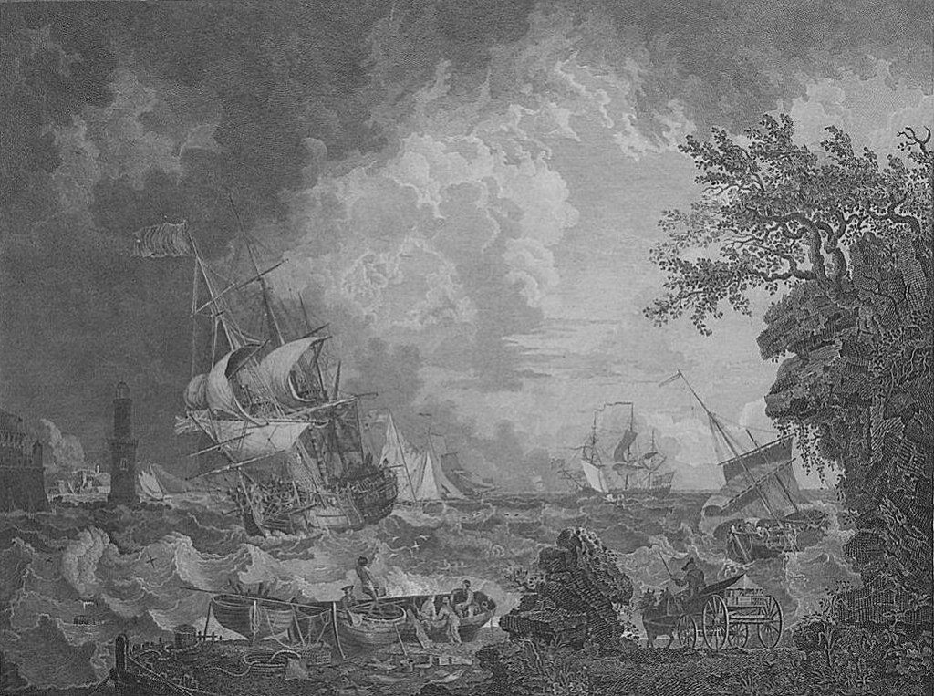 The Fishery, engraved c. 1768 by William Woollett, after Richard Wright